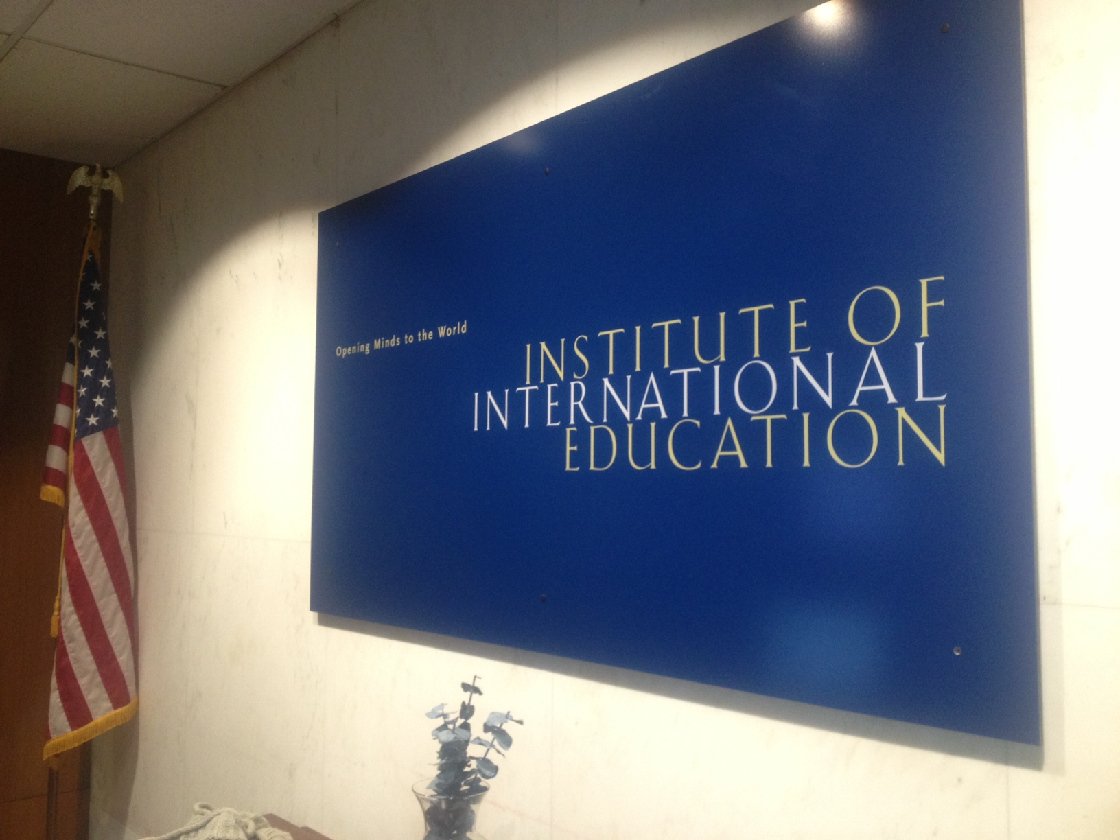 IIE board with logo stating the complete title of organization. Logo board is located in the reception room at at Headquarters in New York City.